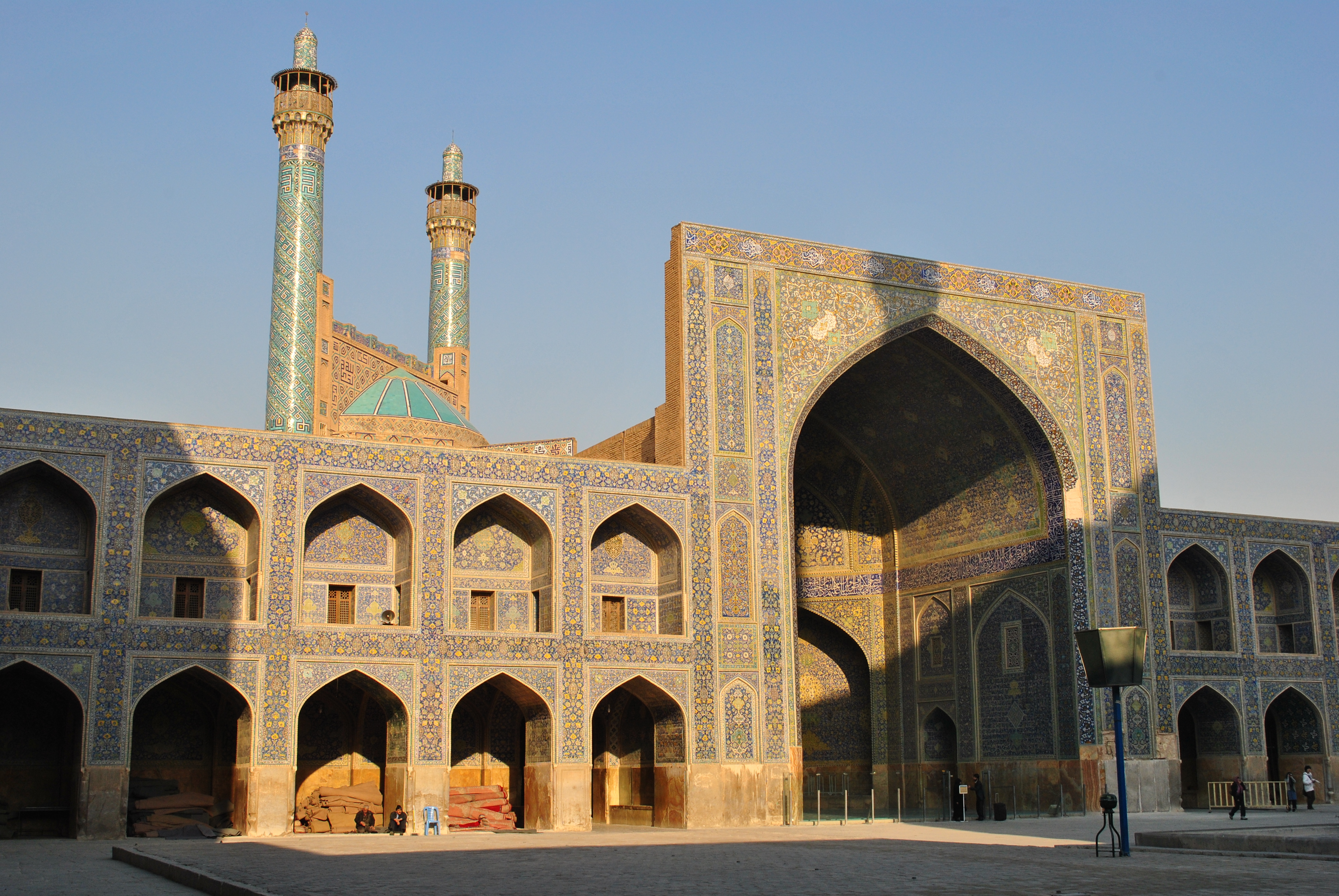 Shah Mosque, also known as Emam Mosque and Jaame' Abbasi Mosque, Isfahan, Iran